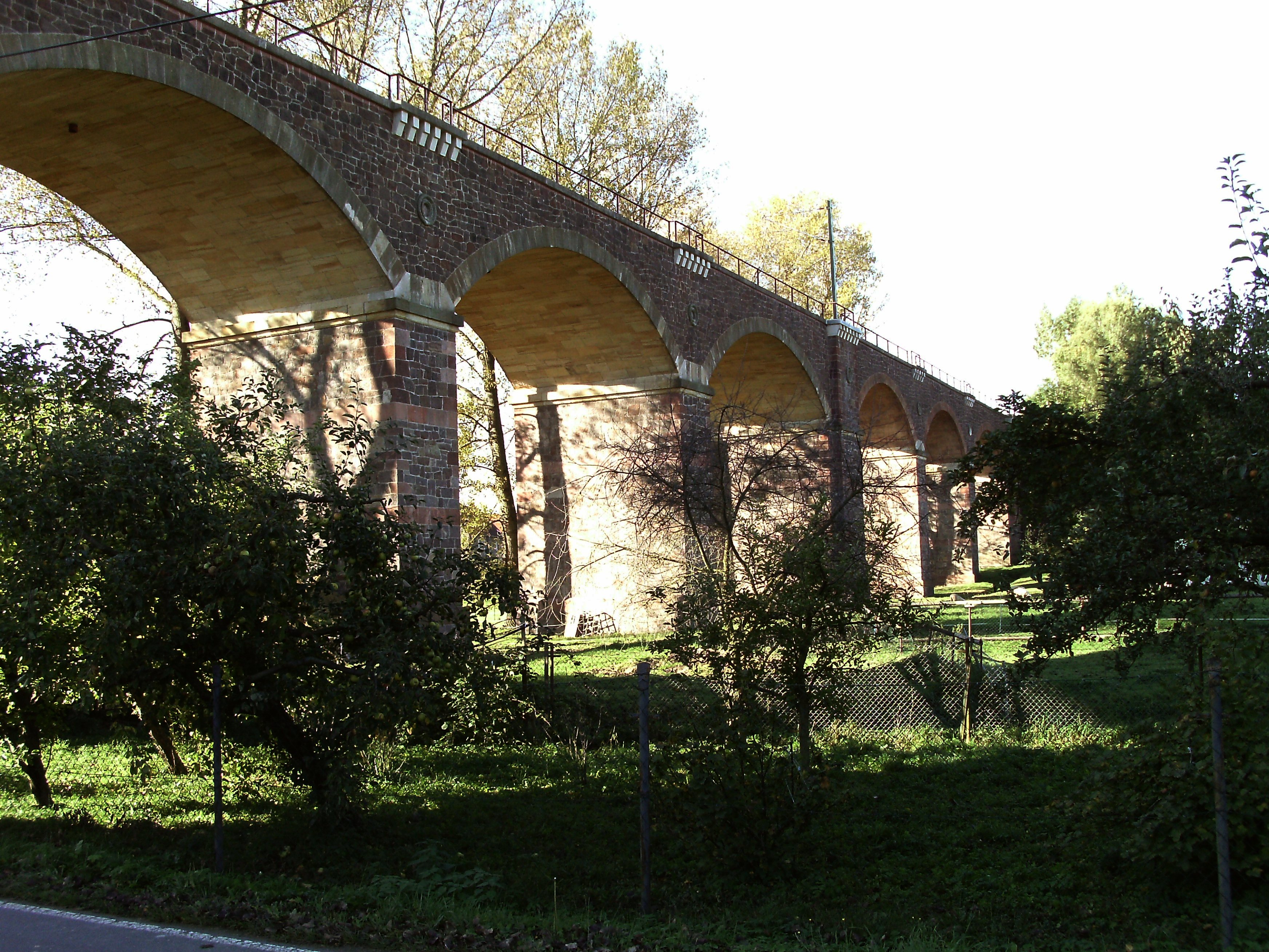 Niedergräfenhain viaduct at the Neukieritzsch–Chemnitz railway line (Geithain, Leipzig district, Saxony)